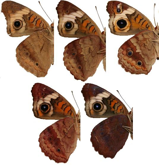 Common Buckeye variation (underside of the wings), Junonia coenia